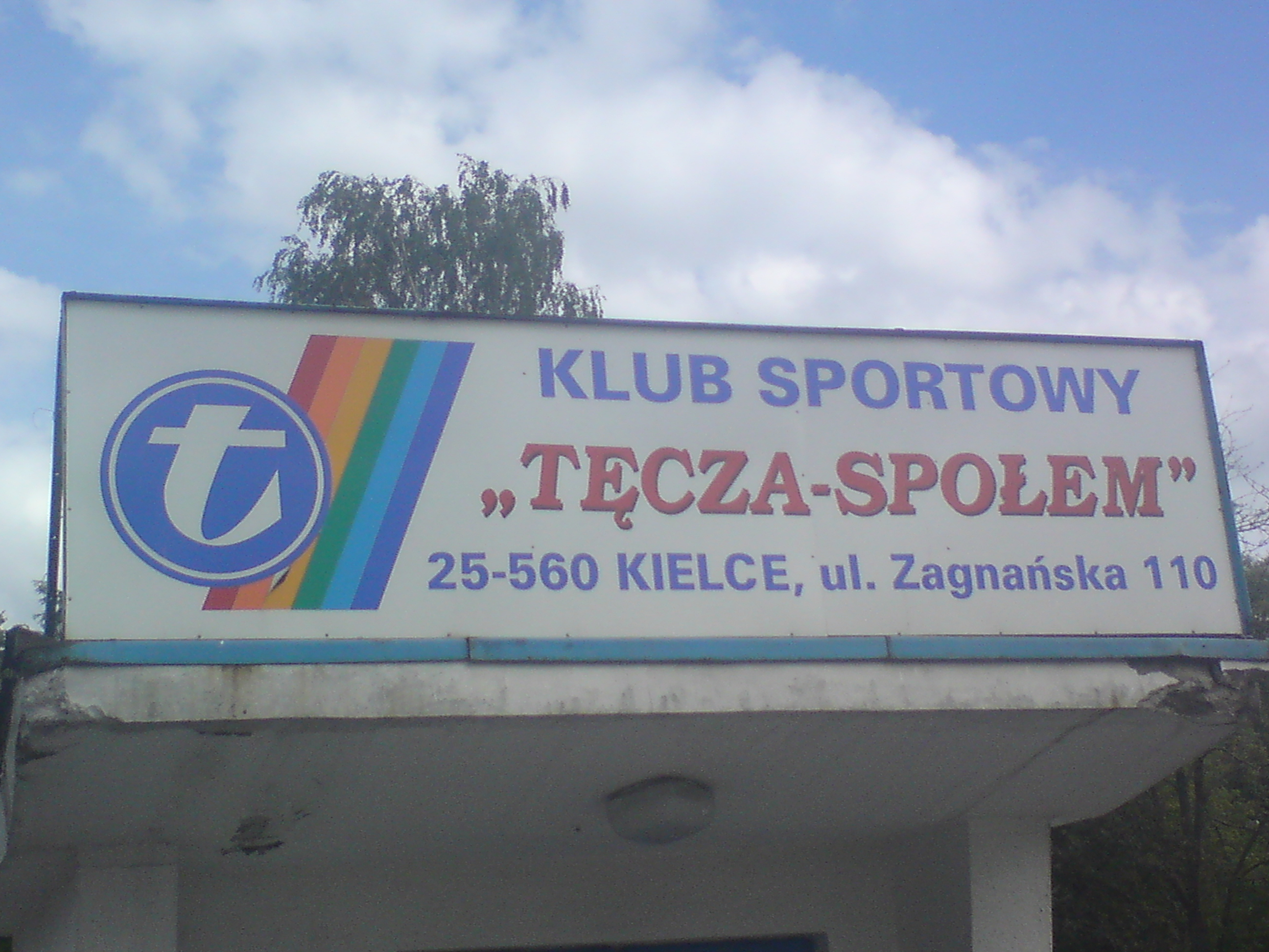 Tecza Kielce